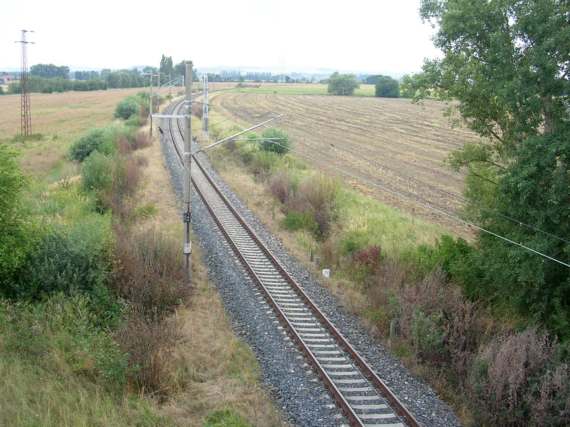 Railway test circuit near Velim, the Czech Republic.